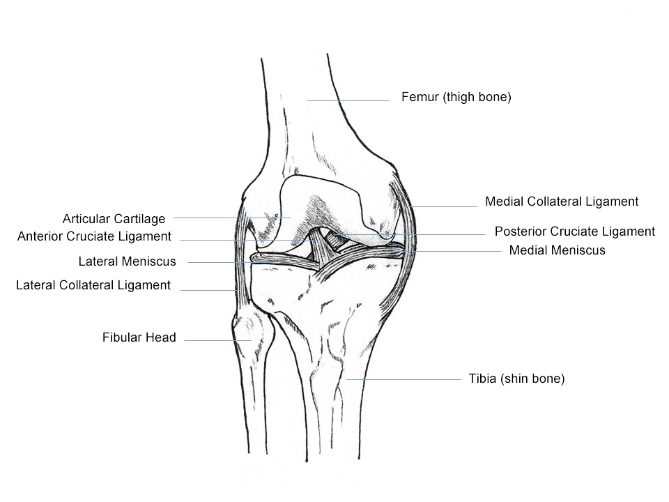 Rendering of the human knee anatomy